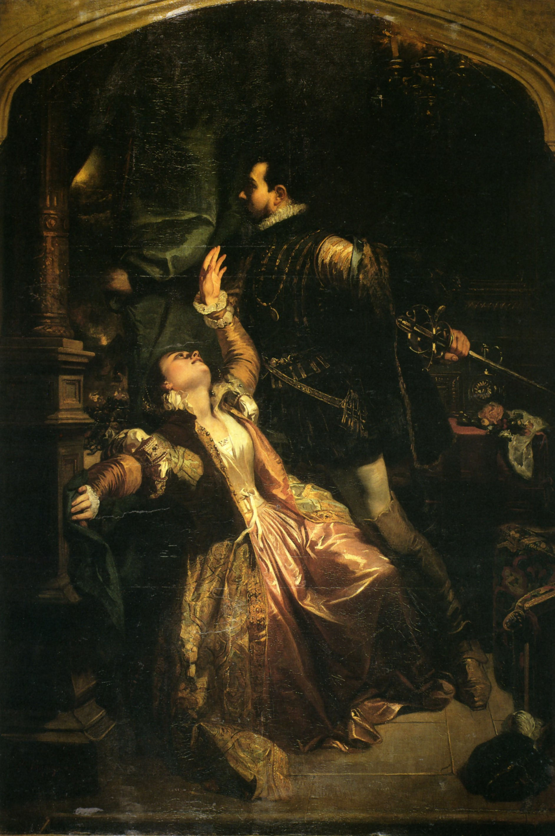 Duet Raoul-Valentine from Meyerbeer's Les Huguenots (Act IV) (painting by Camille Roqueplan)